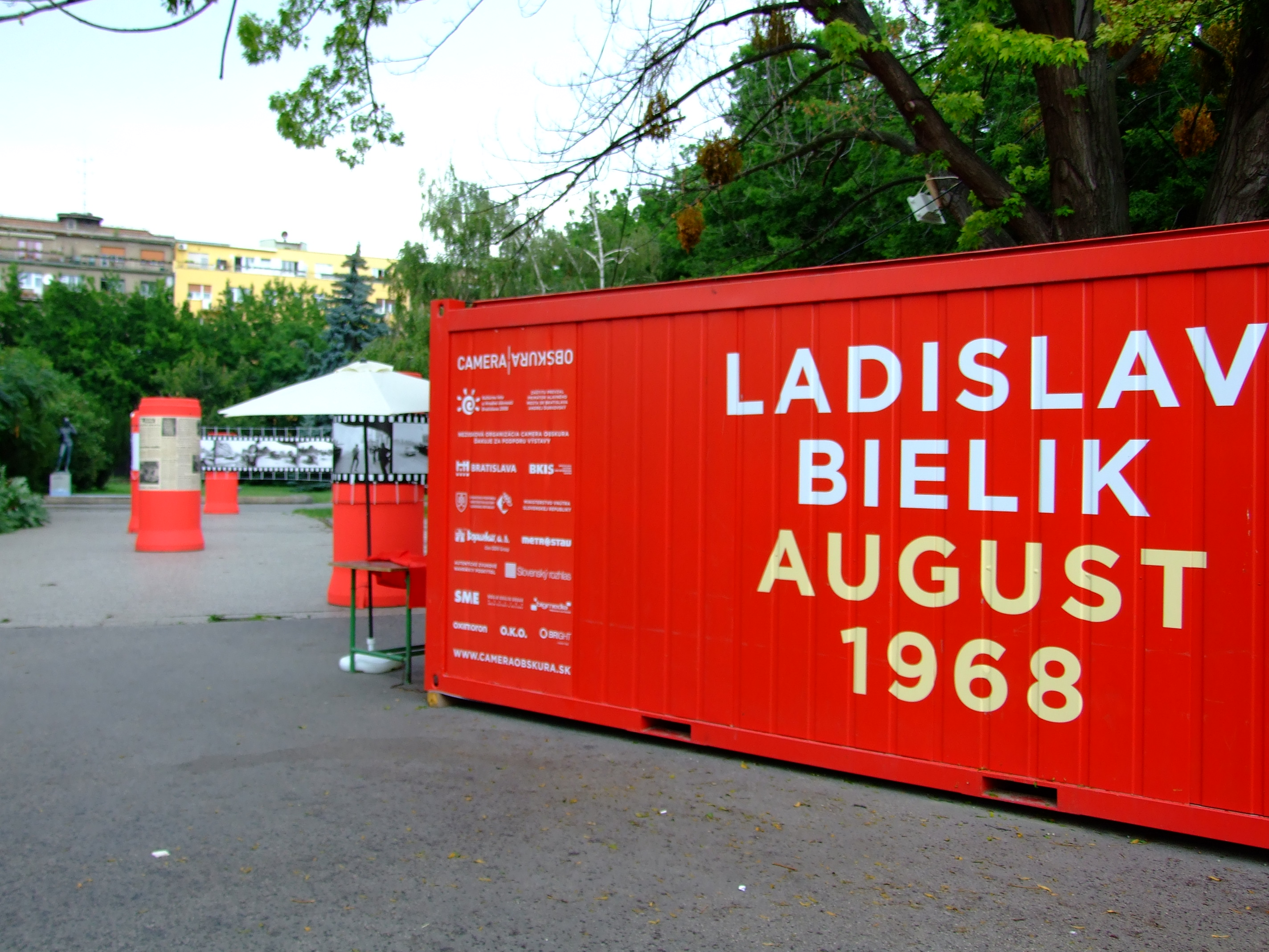 August 1968 "Operation Danube" occupation of Czechoslovakia in Bratislava, Šafárikovo námestie squarehelp